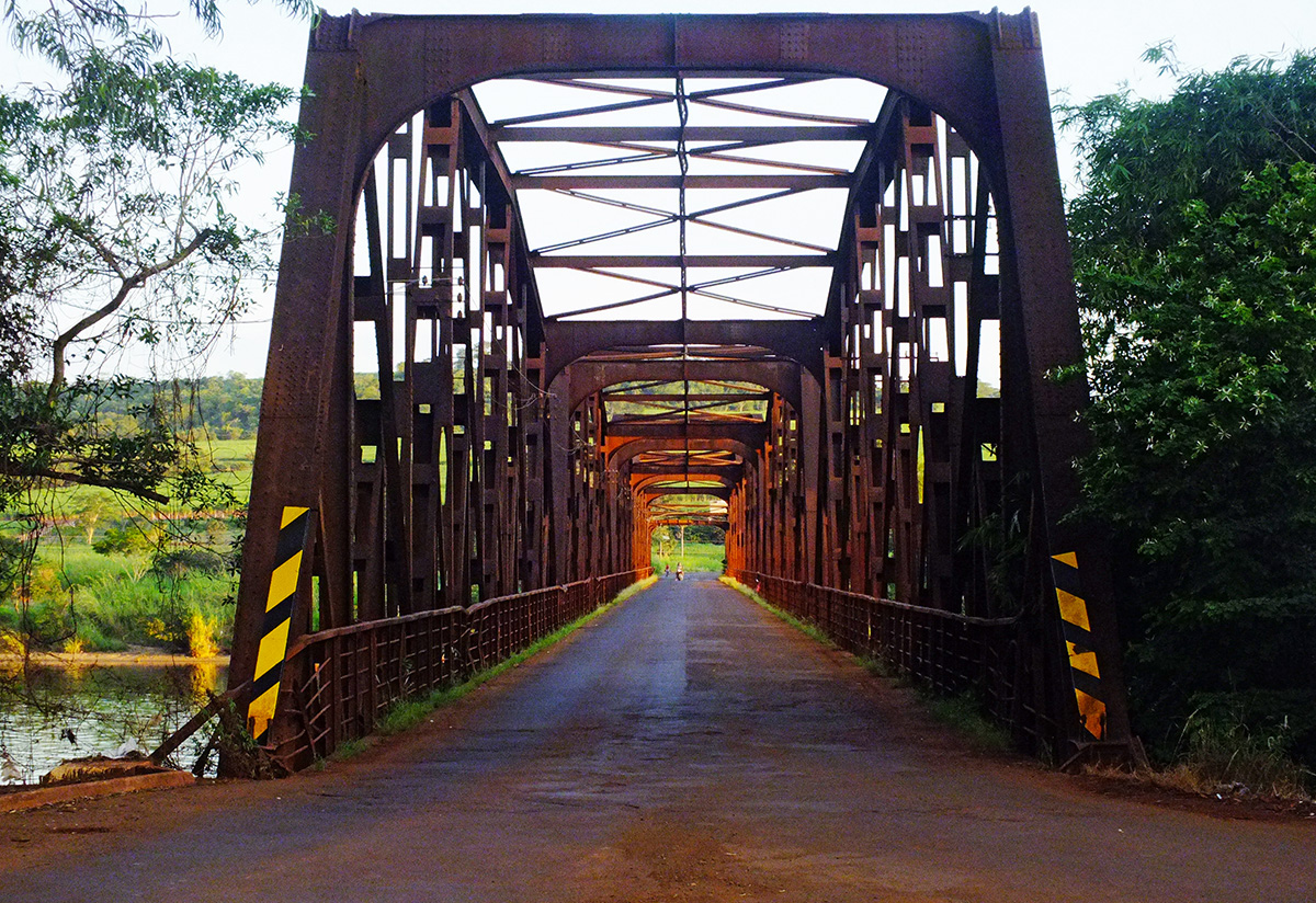 Road-rail bridge over the Rio Grande erected in 1915 by Mogiana Railways Company between the cities Igarapava (SP) and Delta (MG). It was used by the railroad until 1979 and as a road link between BR-050 and SP-330 until 2001. Currently receives only local traffic.